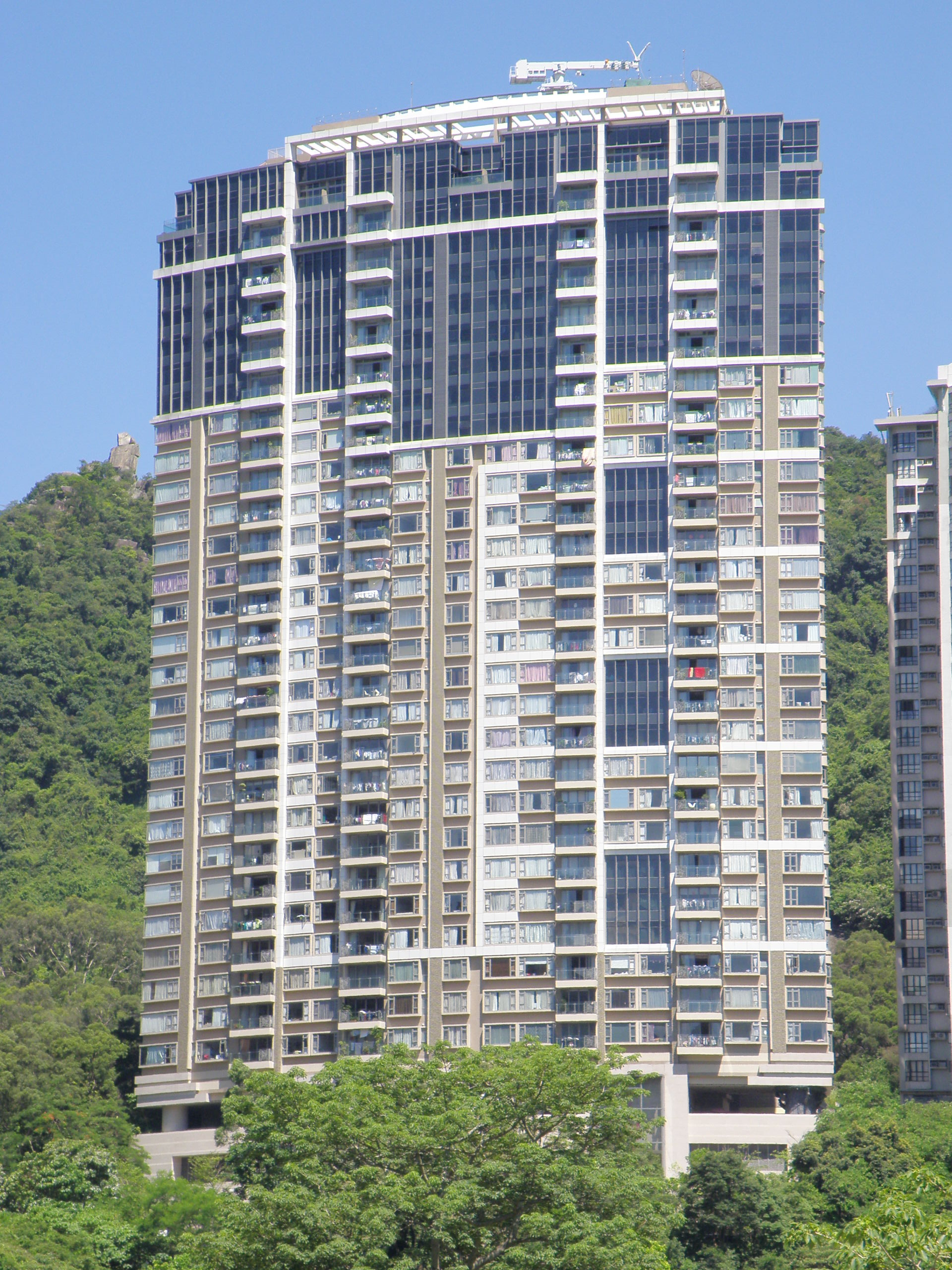 Hill Paramount in Tai Wai, Hong Kong.